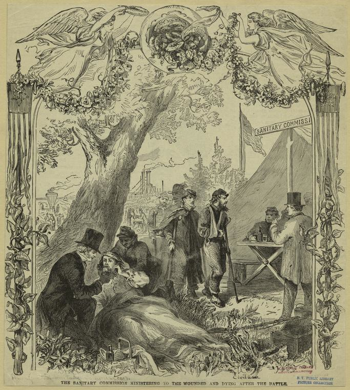 The Sanitary Commission ministering to the wounded and dying after the battle.